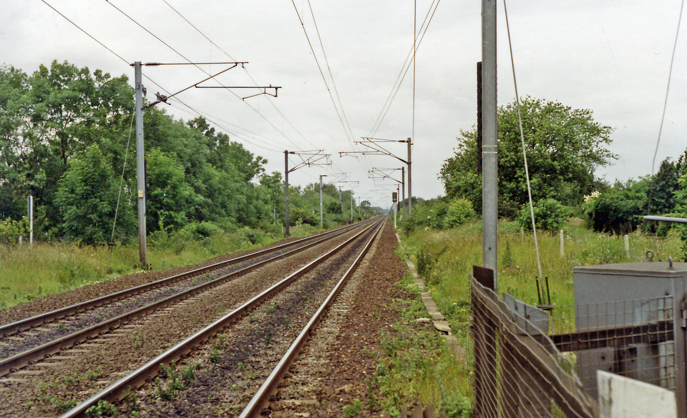 Site of Arksey ECML station, 1992. View northward, towards York and the North: ex-GNR section of the electrified ECML that extended a mile or two further to Shaftholme Junction, where it was ex-NER. The station here was closed to passengers on 5/8/52, to goods on 7/12/64. Not a trace seemed to be left in 1992.